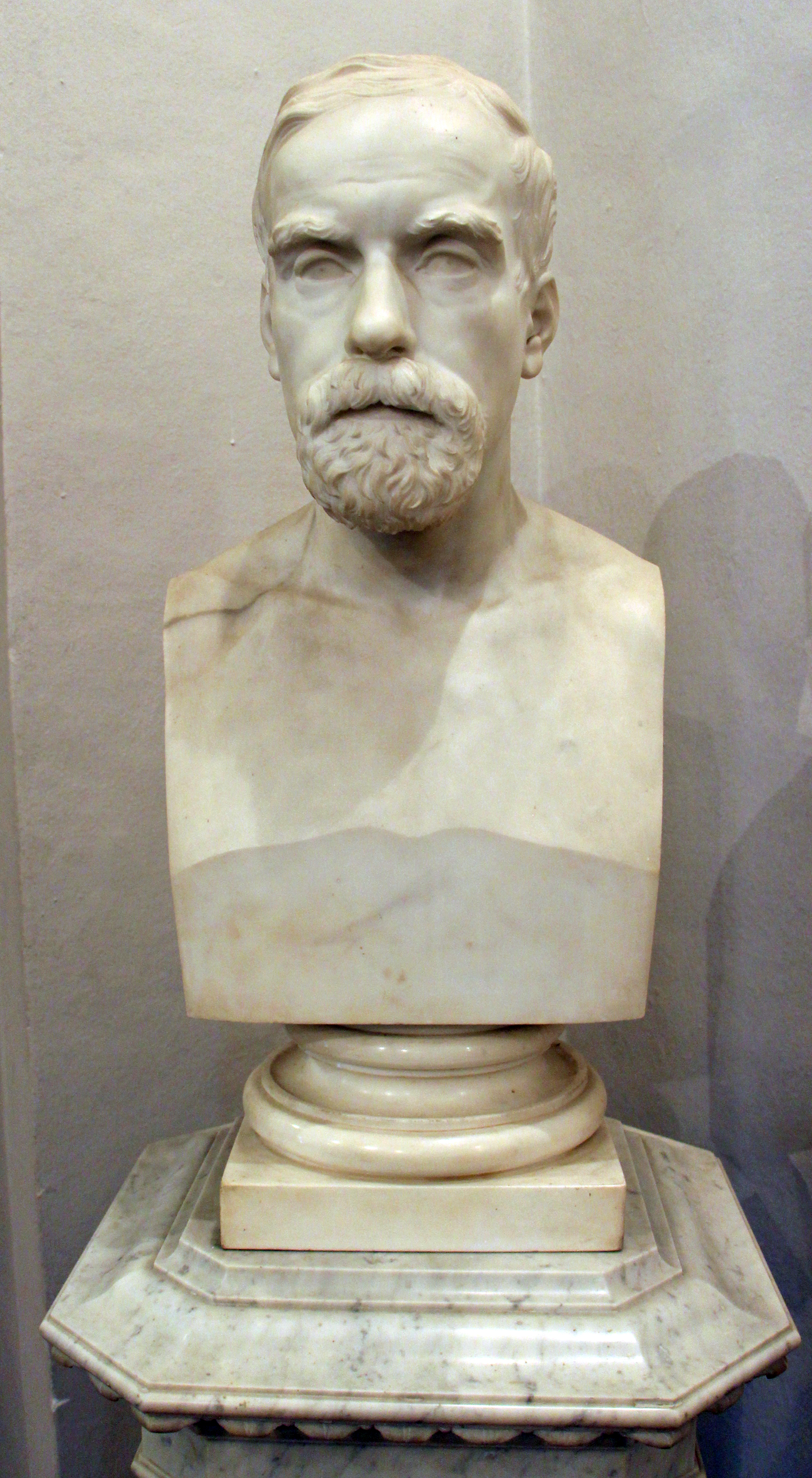 Accademia dei Fisiocritici Museums